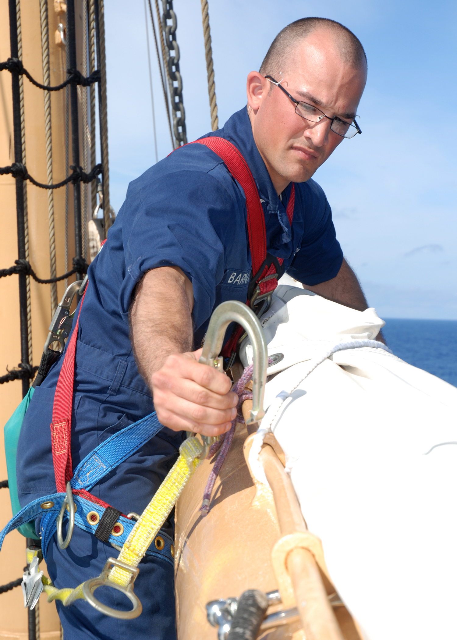 ATLANTIC OCEAN (April 27) USS Constitution crewmember Aviation Electrician's Mate 2nd Class, Tony Barnardo, clips a safety harness onto the foremast topsail yard aboard USCG Barque Eagle (WIX 327) while climbing the rigging. Barnardo is one of five "Old Ironsides" Sailors aboard the three-masted barque as it on its 3,149 miles voyage along the from New London, Conn., to Rota, Spain. Originally commissioned Horst Wessel in the German Navy in 1936, she was recommissioned USCG Eagle in 1947, and her permanent crew of 55 Coast Guard Sailors are joined by hundreds of cadets and officer candidates for sail training every year. (U.S. Navy photo by Mass Communication Specialist 1st Class Eric Brown/Released)